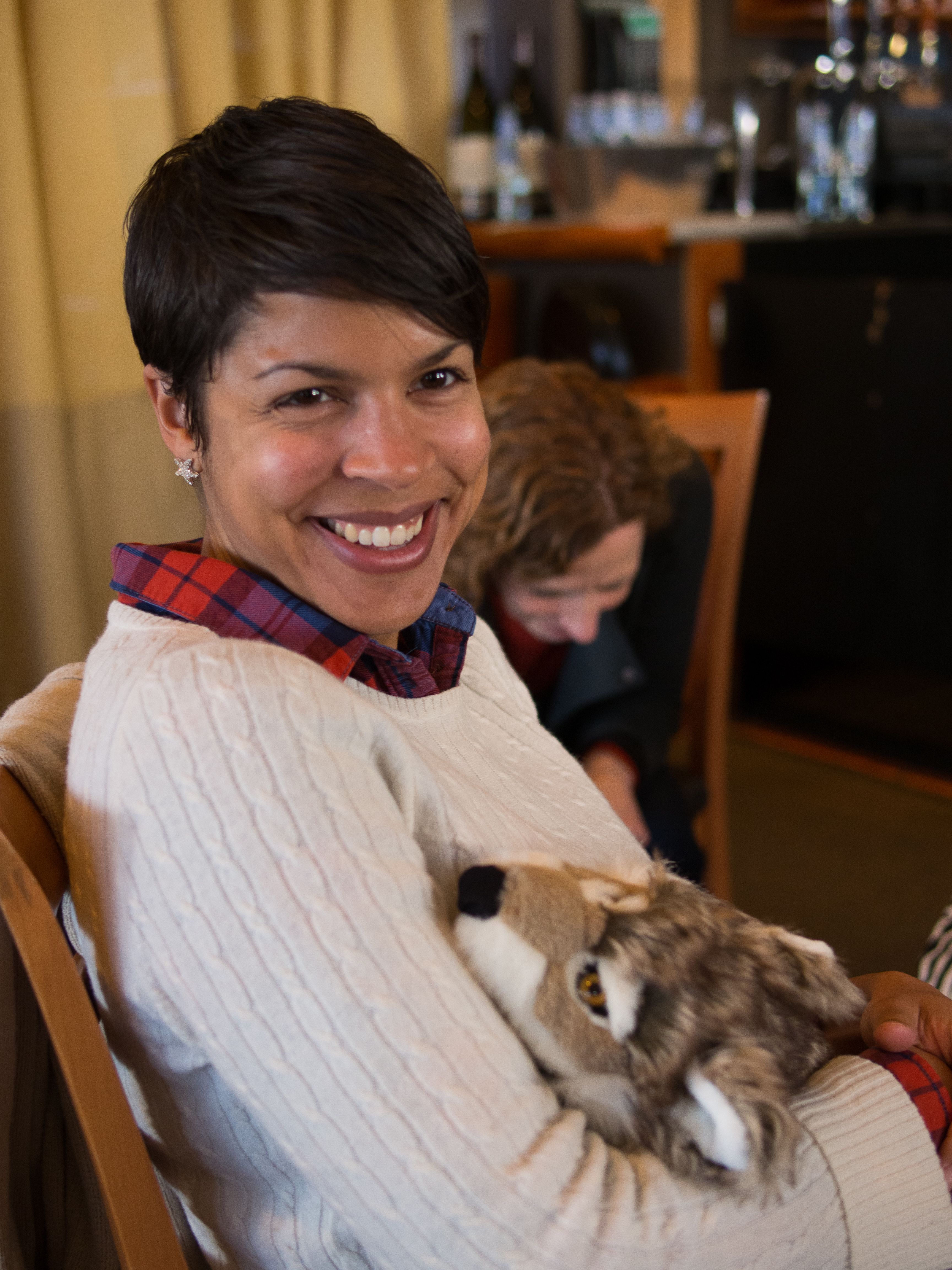 American activist Catherine Bracy, Senior Director for Code for America, at December 2013 staff retreat.